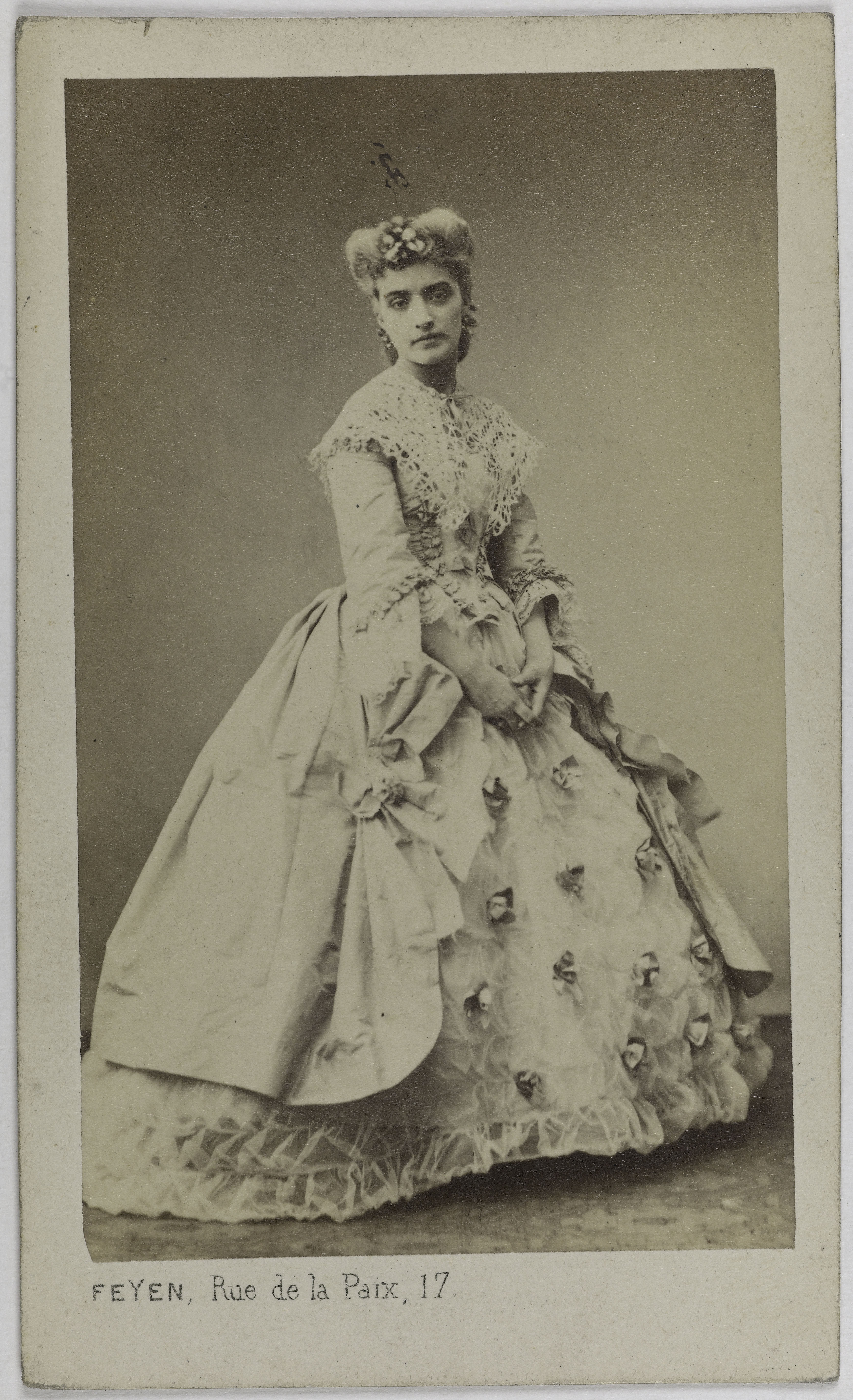 Portrait de Julia Zoé Pfotzer, actrice. Carte de visite (recto). Photographie de Jacques-Eugène Feyen (1815-1908). Tirage sur papier albuminé, 1860-1890. Paris, musée Carnavalet.